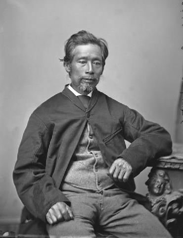 Half length studio portrait of Appo Hocton. He sits with one hand on his lap and his other elbow on a table, with hand held at his waist. Distinguishing features include his thin moustache and Goatee beard. Studio props include a chair and desk. The backdrop is neutral.